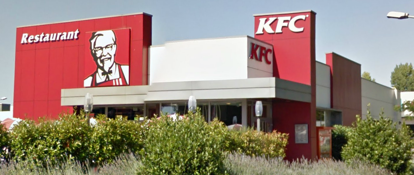 KFC in Tours, France